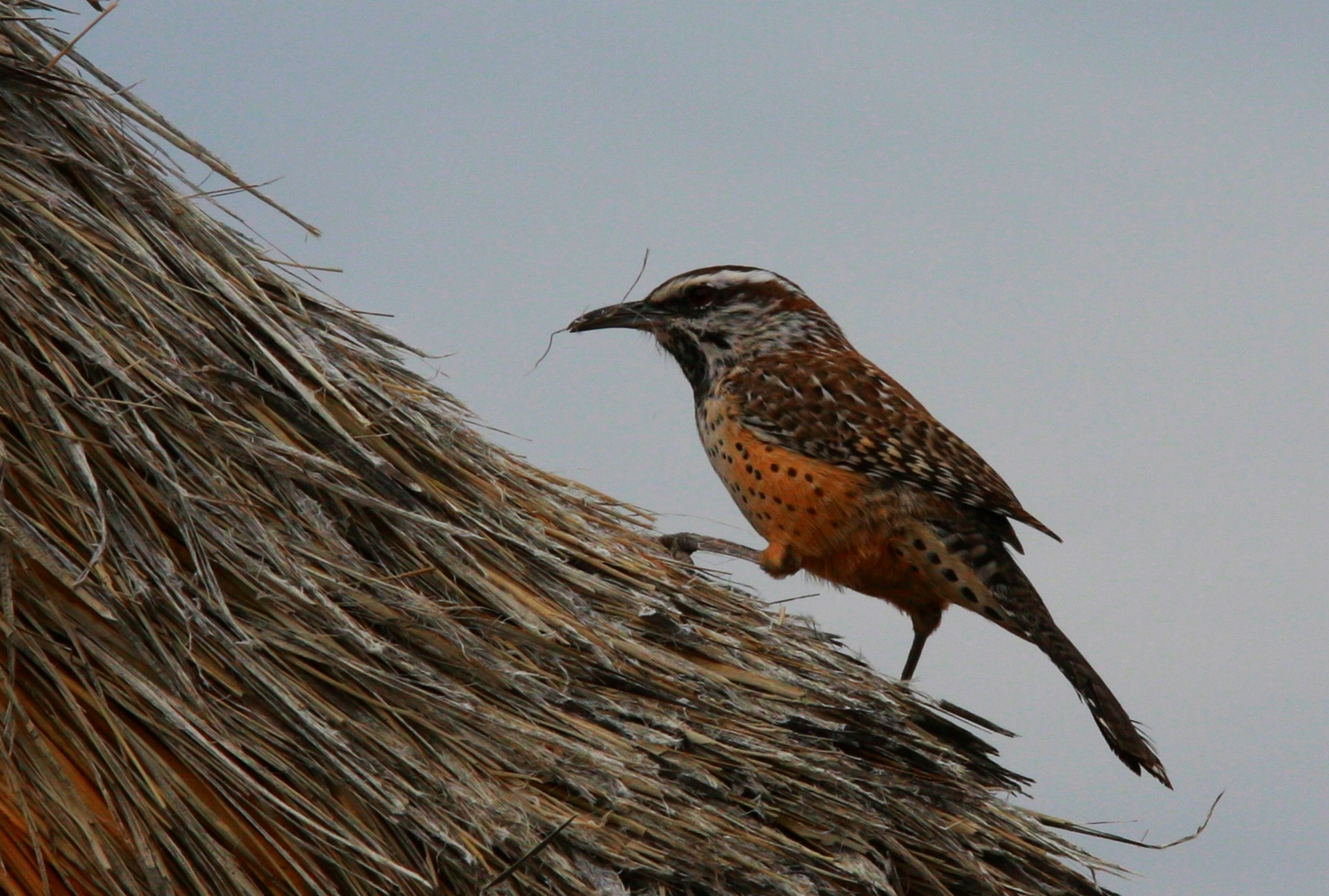 Cactus wren (Campylorhynchus brunneicapillus) in Big Bend National Park, Texas.